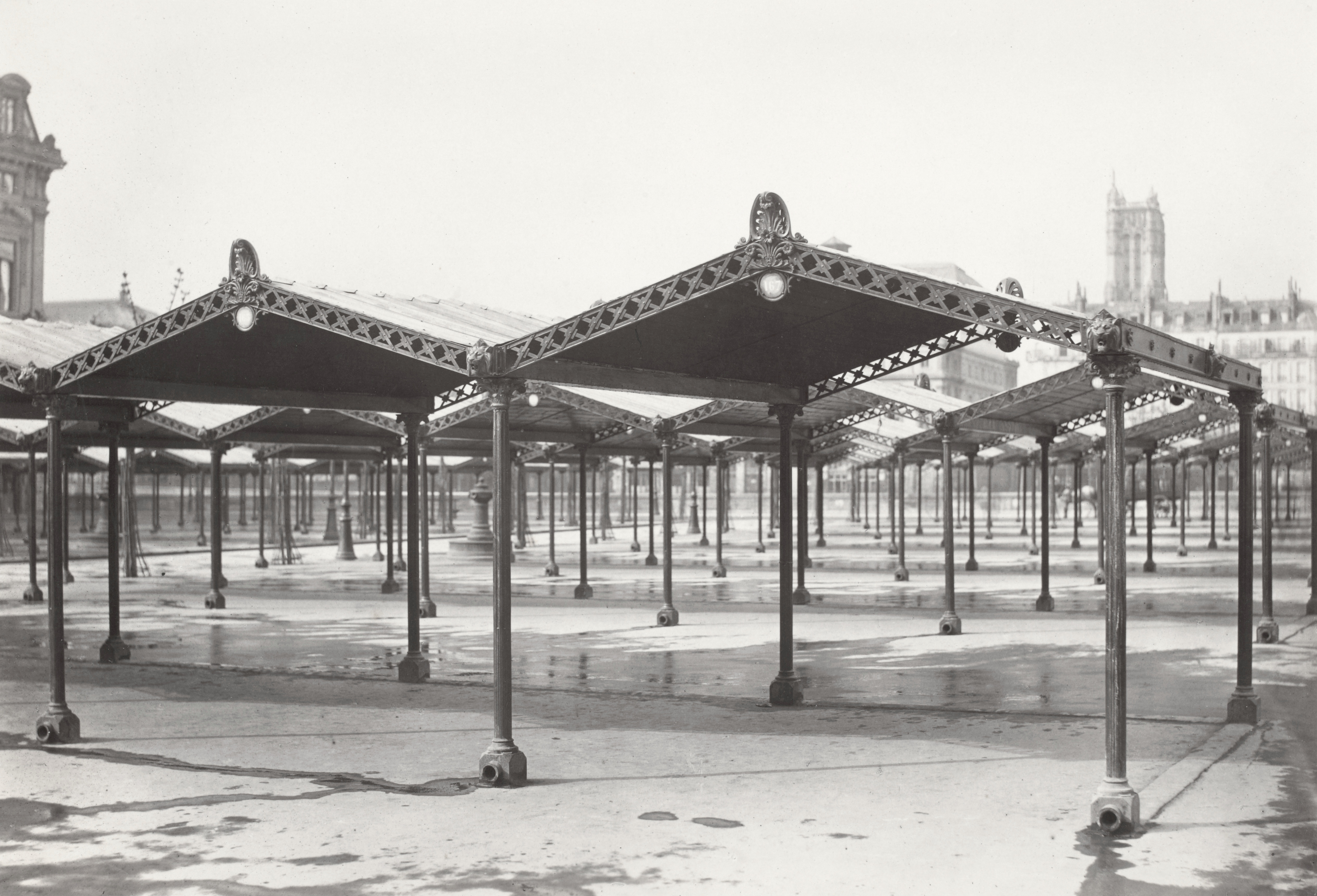 Iron and cast iron shelters of the city flower market.